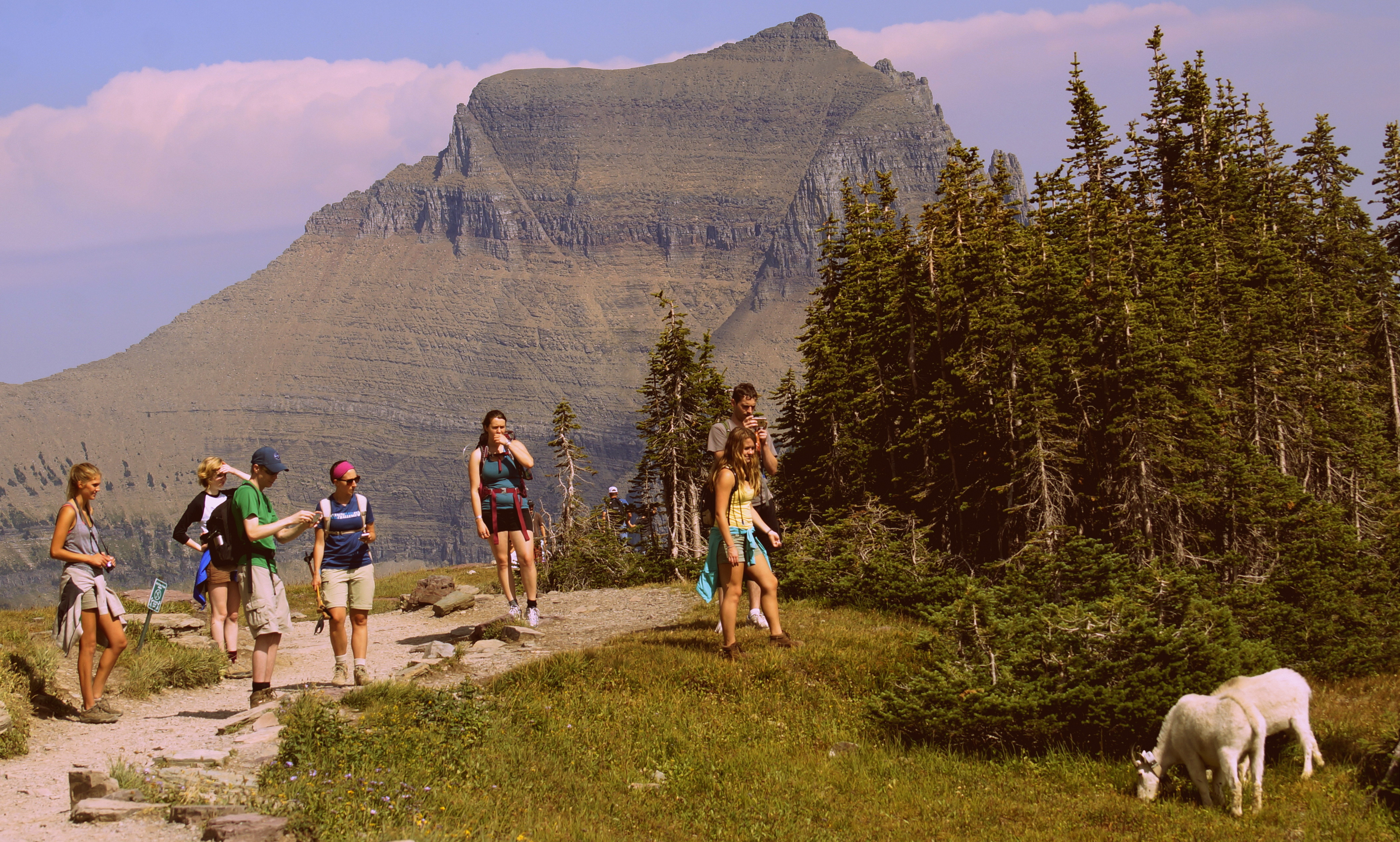 Visitors to Glacier National Park in Montana observing and photographing Mountain Goats.